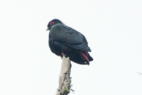 Location: Ranomafana National Park, Madagascar